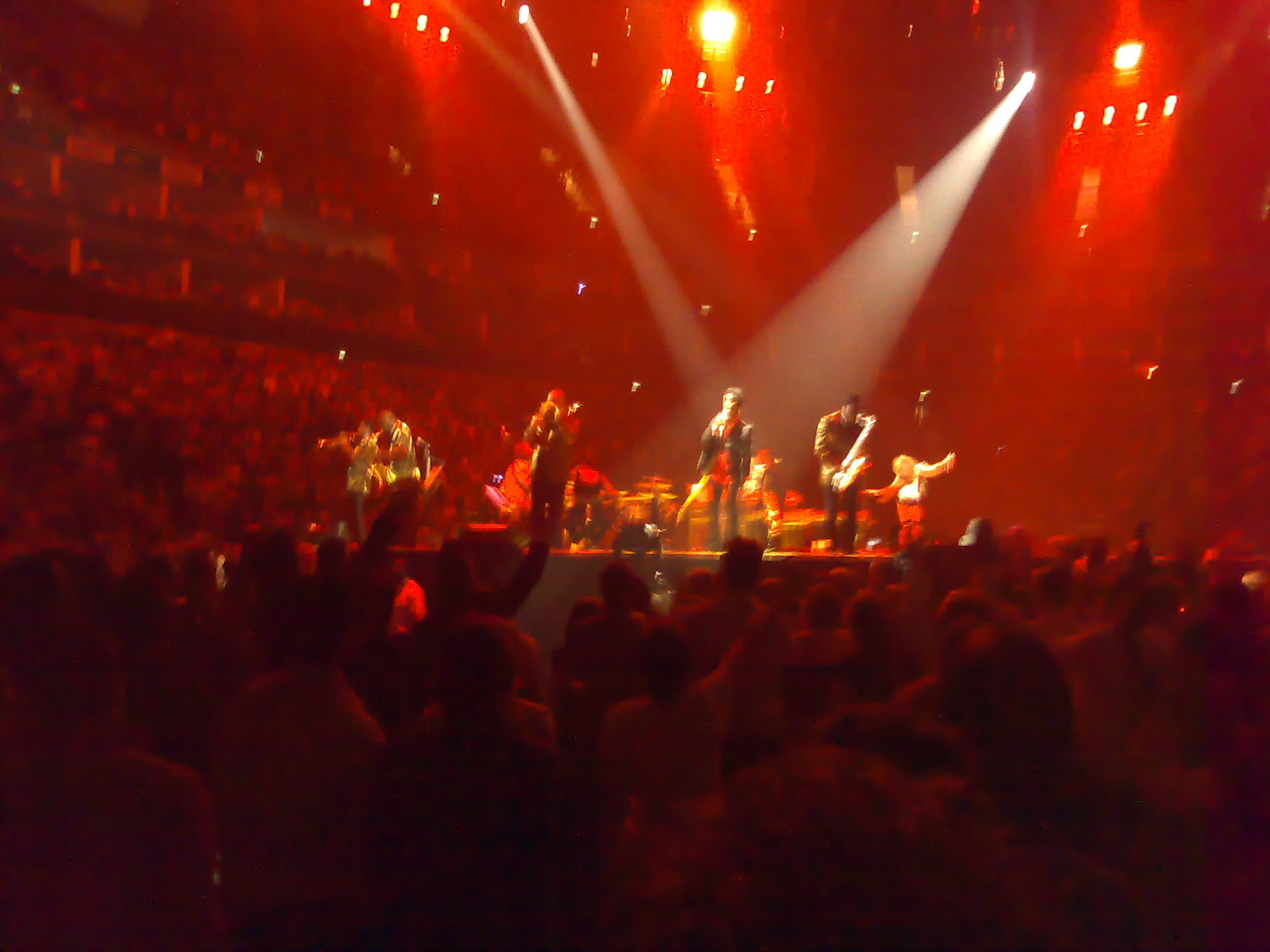 Prince in concert, Earth Tour (21 nights in London 2007), O2, London (UK)